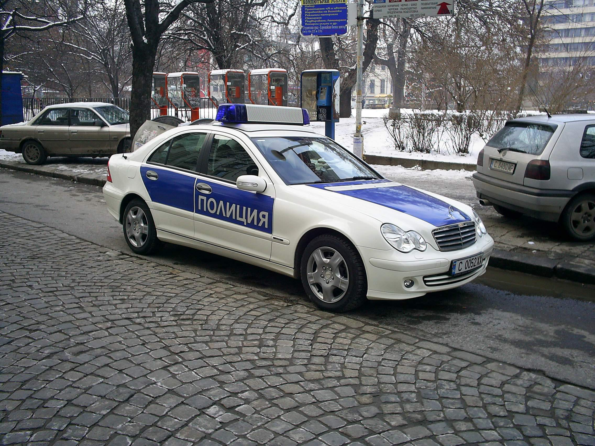 A police car in Bulgaria